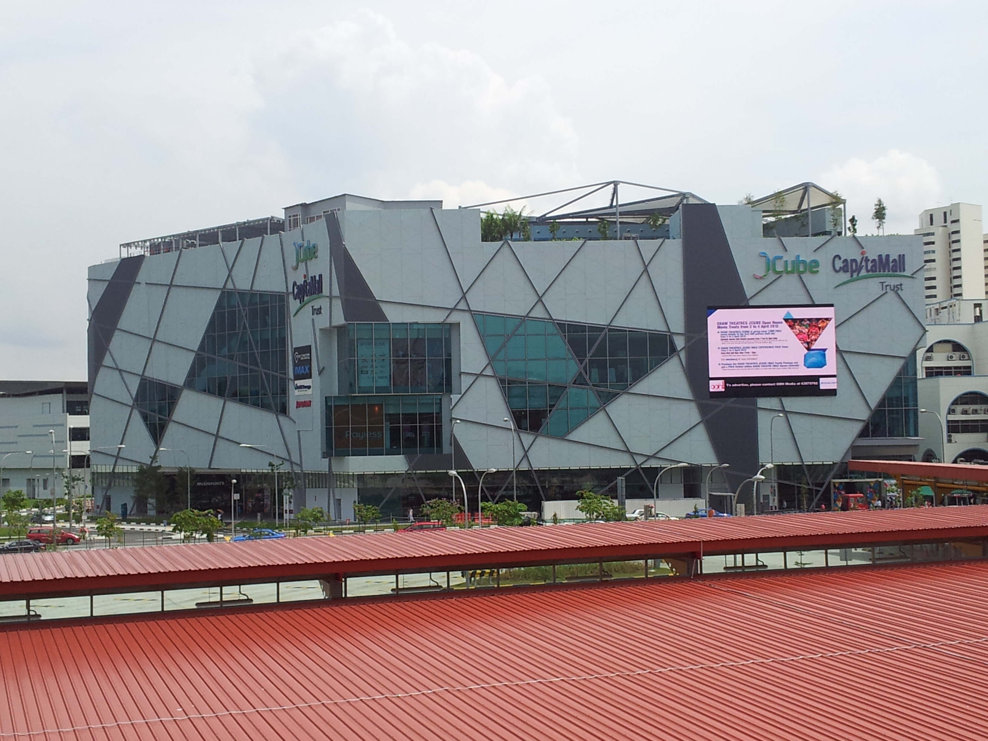 This picture is the front view of JCube, a shopping mall located along Jurong Gateway Road, Singapore. This picture was taken on 28th May 2012, 13:17:18.